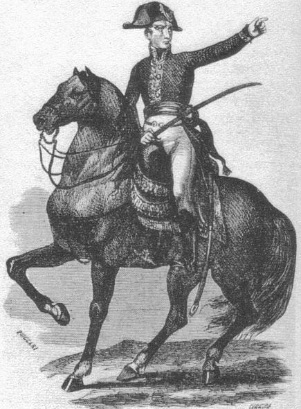 Print of General Eroles from "Guerrilleros de 1808" by E. Rodriguez-Solis, Madrid, 1887.